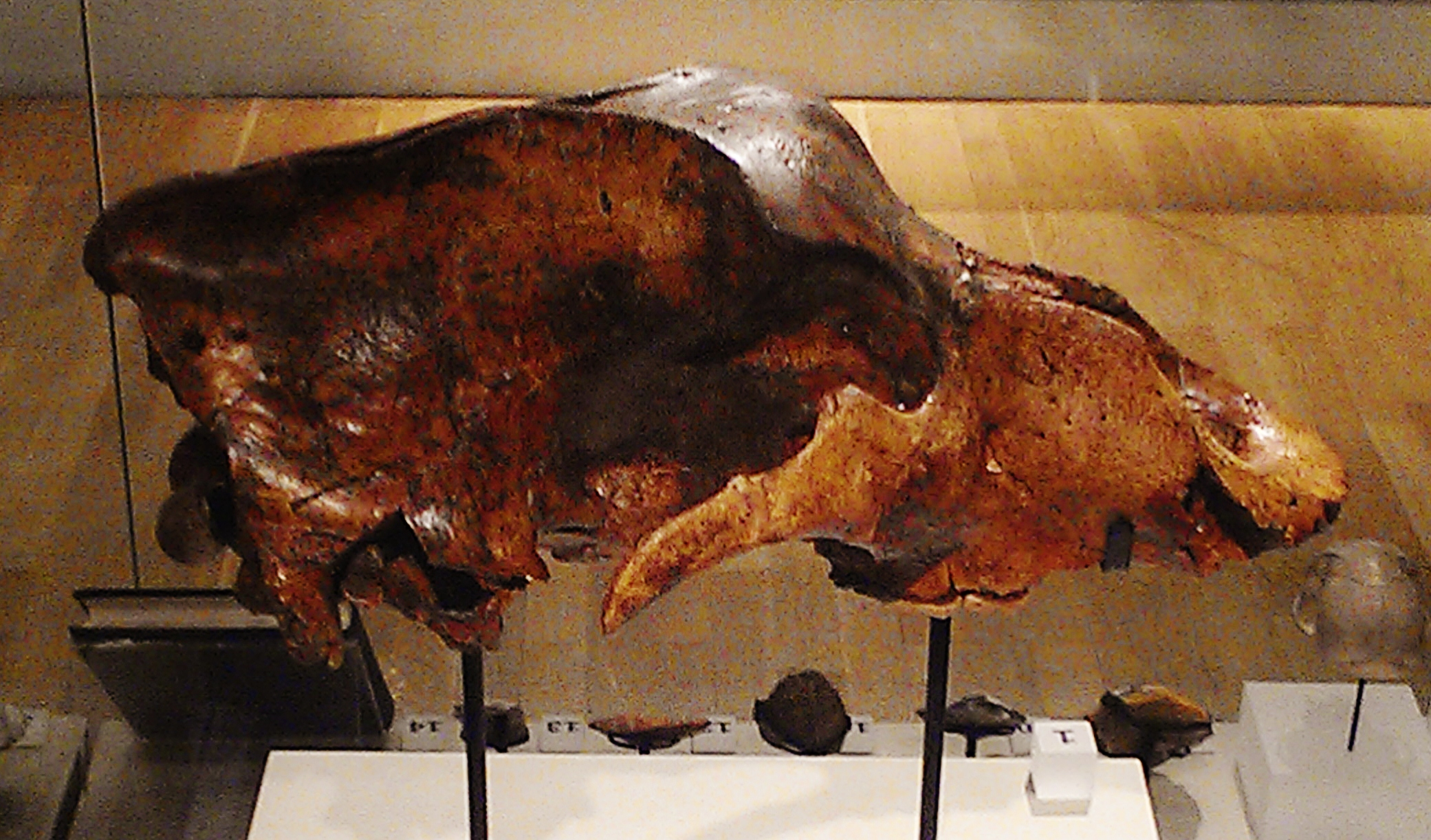 A bear skull from the Old Stone Age site of Swanscombe; now exhibited in the Museum of London.